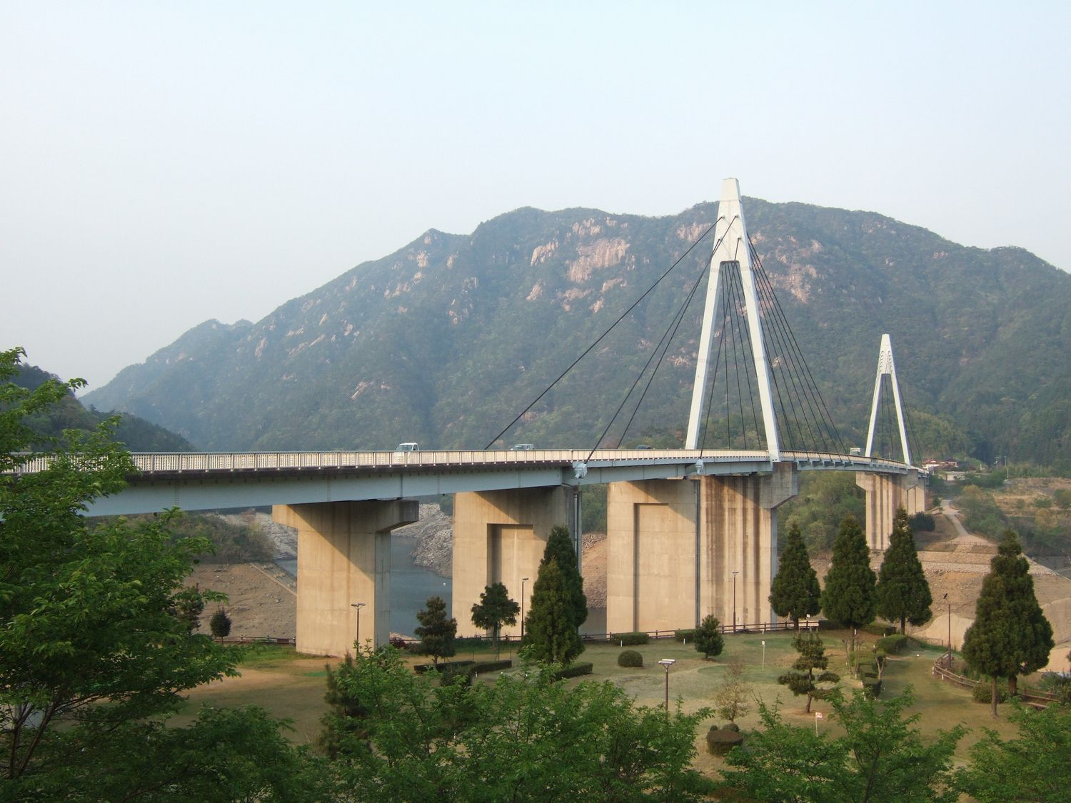 Yasaka-Oohashi (self anchored suspension bridge) ,view from Iwakuni city Yamaguchi pref., Japan.